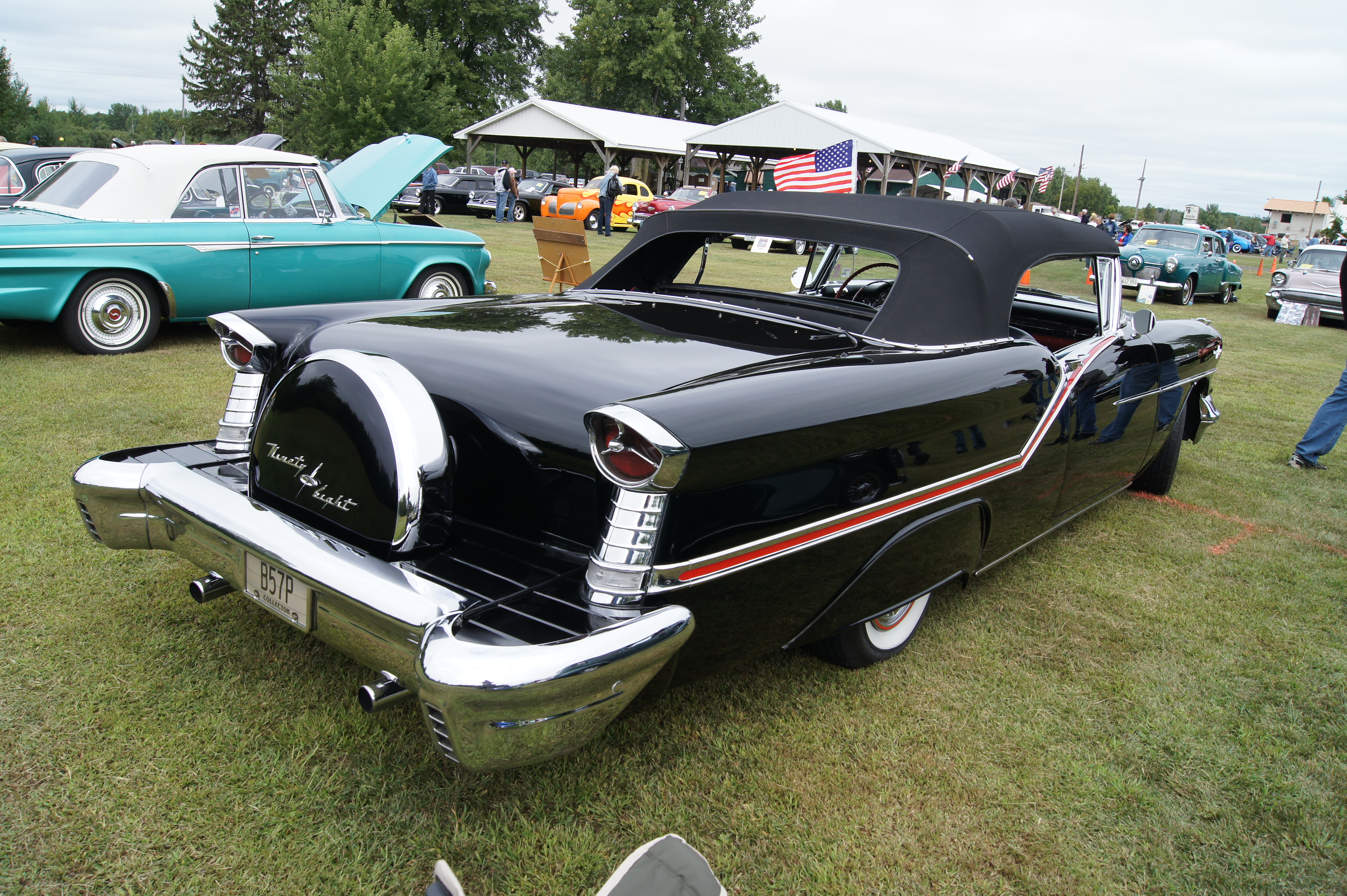 North Star Chapter Studebaker Drivers Club 13th Annual Labor Day Car Show September 2, 2013 Blacksmith Lounge Hugo, MN More Car Pictures